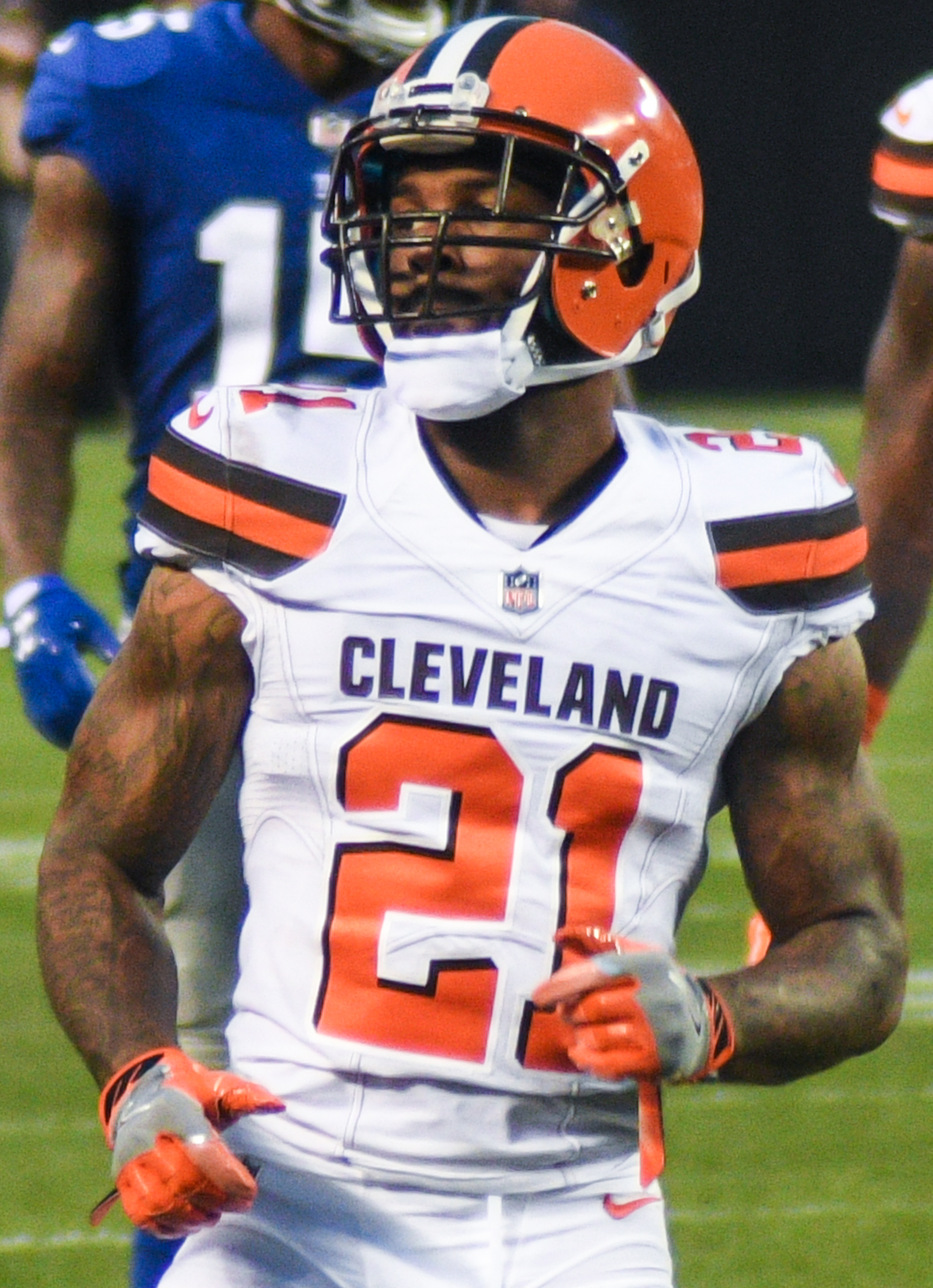 Cleveland Browns vs. New York Giants